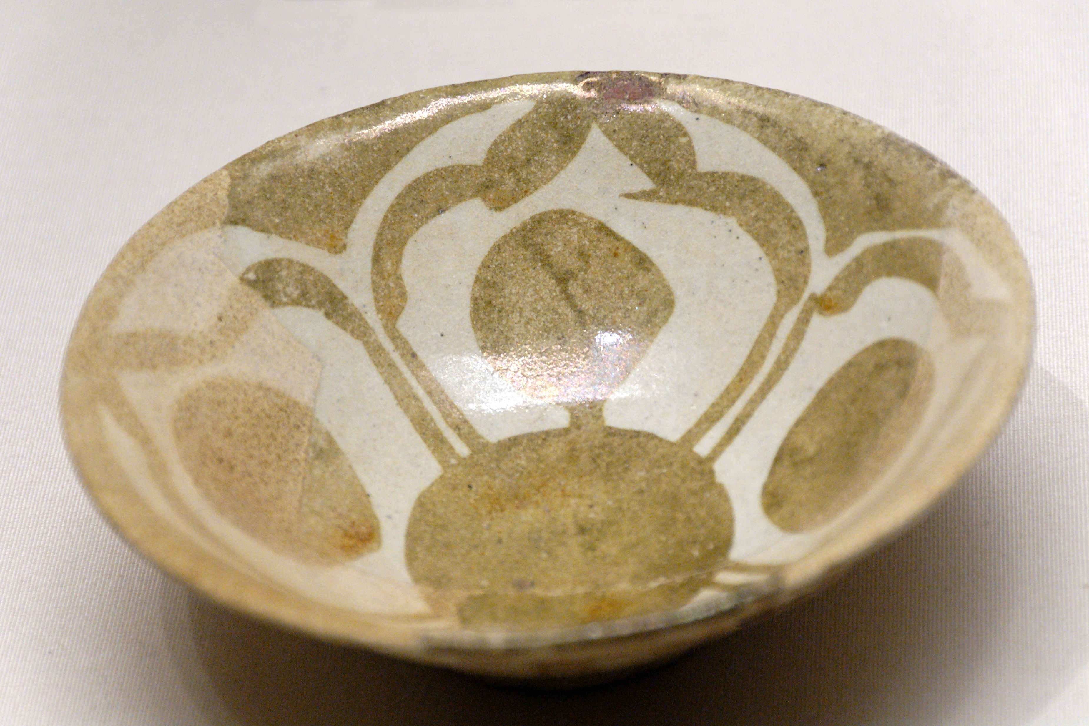 Arch decorated cup.